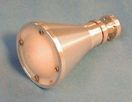 Horn antenna with dielectric lens, used in the Atacama Large Millimeter Array, a radio telescope being built in Chile. It is used as a "feed horn", to collect the radio waves reflected from the large parabolic dish and funnel them to the radio receiver. The telescope will operate at millimeter wavelengths, from 9.6 mm to 0.3 mm. In use it is installed in a cryostat and cooled by liquid nitrogen to very low temperatures to lower the electronic noise level and make the radio telescope more sensitive to weak signals.